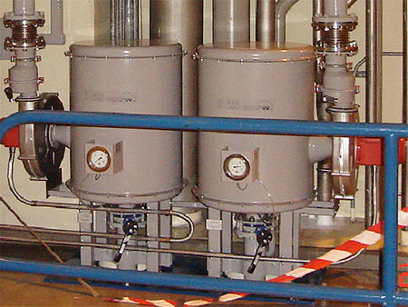 Oil mist separator type UPF-OTV for venting of lube oil tanks used for turbines. Redundand design for turbines in nuclear power plants. Manufacturer: UT99 AG.